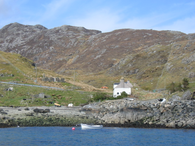 Landing Place Rhenigidale The last place in the Western Isles to get a road link into the village. In former times there was a moorland track and this landing beach which were the only two ways of access. In stormy weather the landing beach was too exposed. The white house with the distinctive porthole shaped wind is Tighe na Mara and is well named -literally- "House by the Sea"